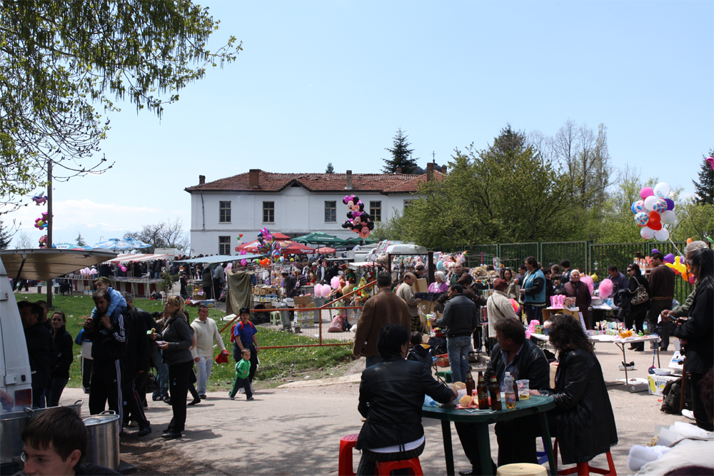 Saint George's Day Fair at Kremikovtsi Monastery